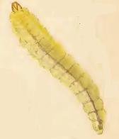 Stainton’s Natural History of the Tineina (1855–1873): Phyllonorycter lantanella larva